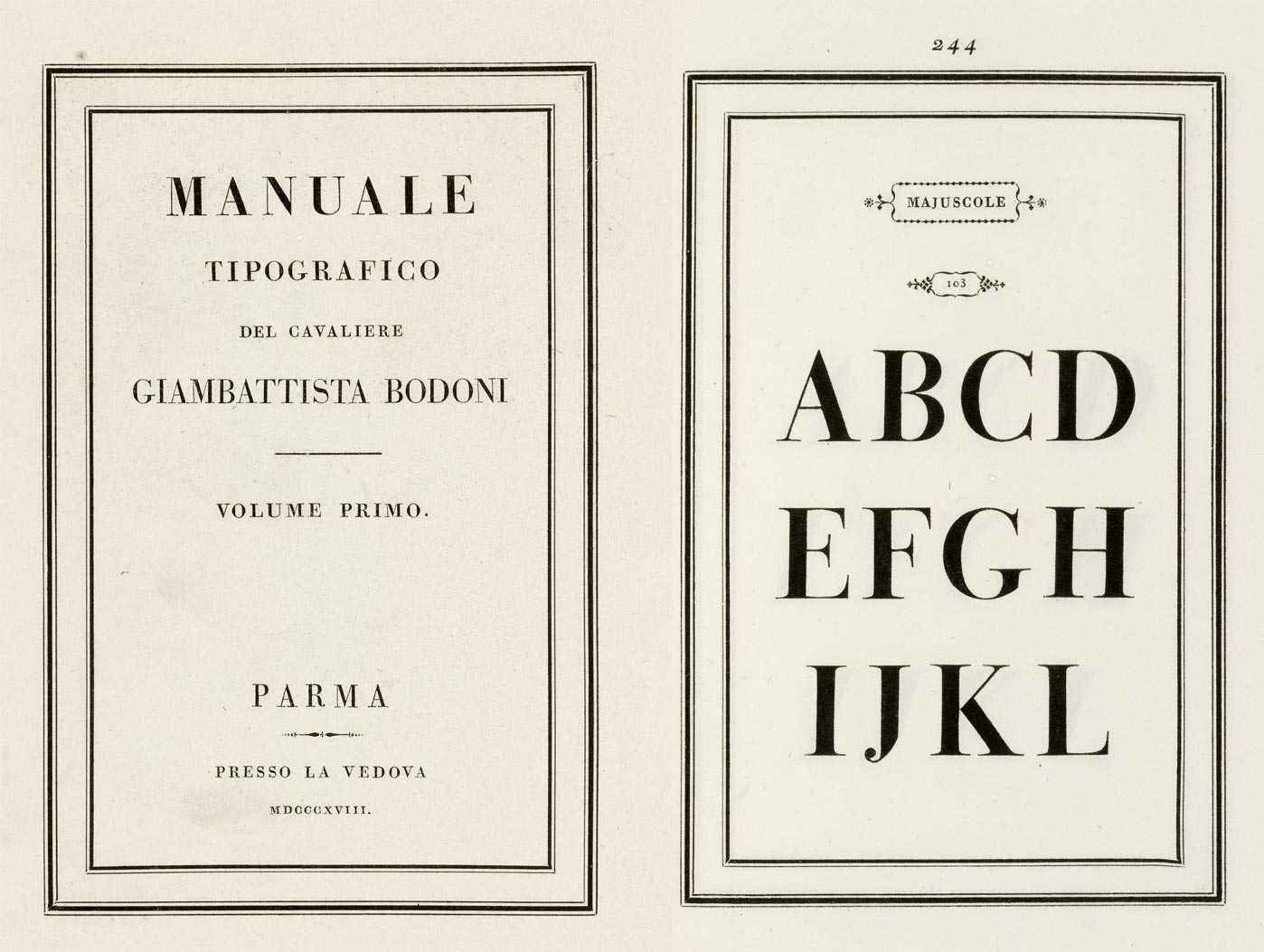 This is the front page and another page of Giambattista Bodoni's book Manuale Tipografico